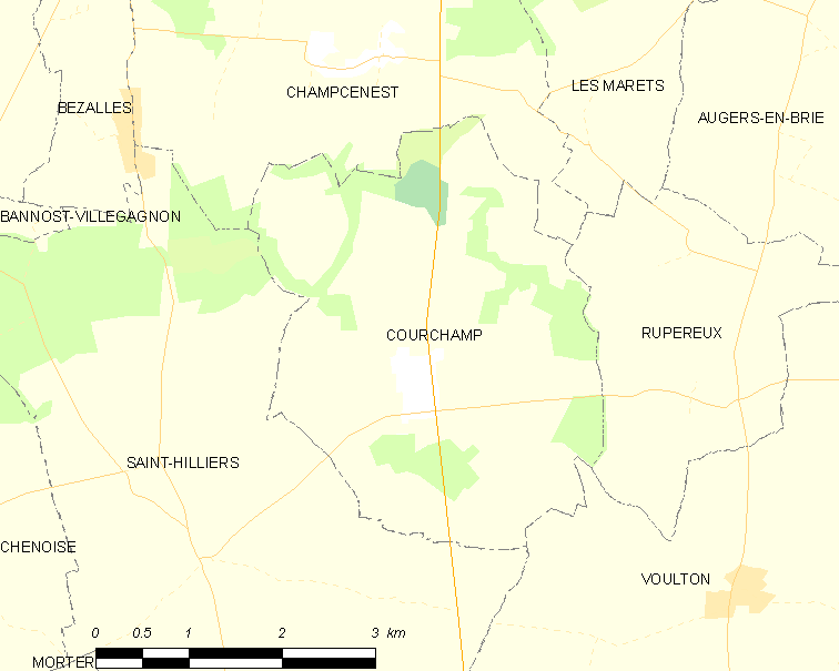 Map of French municipality Courchamp